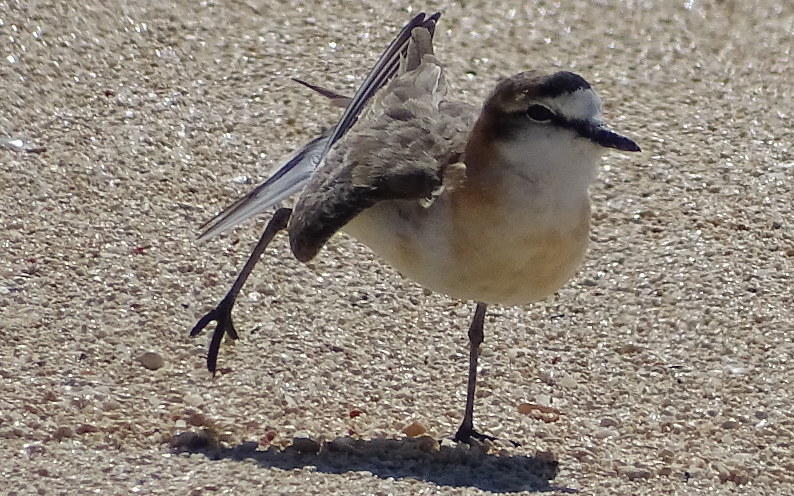 White-fronted Plover (Charadrius marginatus) on the hot sands of Nosy Ve, Madagascar